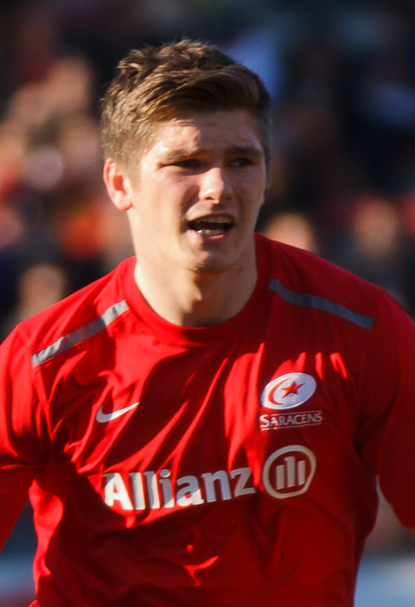 Owen Farrell